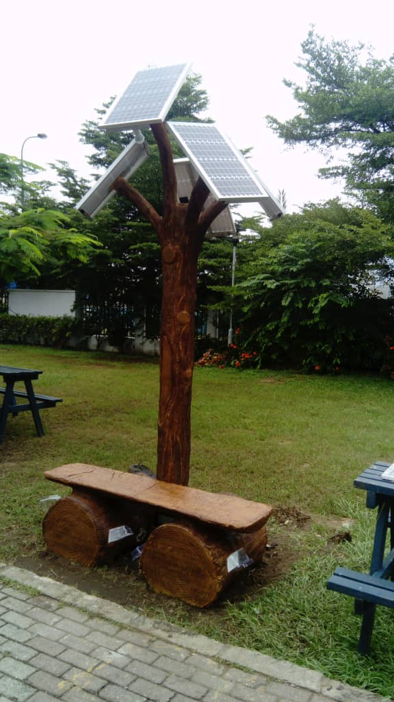 Solar Tree named 'Possibility tree' has been installed at Muri Okunola garden, Adeyemo Alakija st, Victoria Island. Lagos. Nigeria by Folub Eletrik Servz